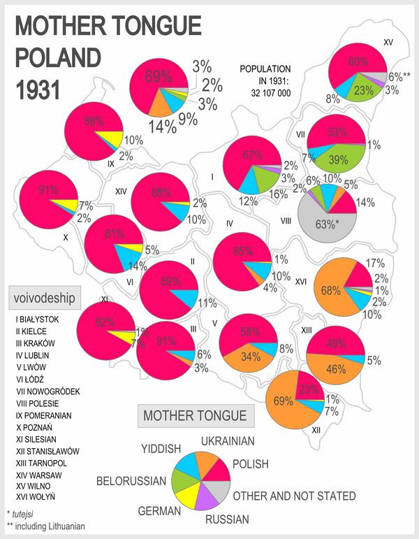 The user-generated chart based in most part on the census results with mother tongue in Poland around 1931 by each Voivodeship. Data originates from the history textbook for secondary schools in Poland edited by Radziwiłł A.., Roszkowski W. (2001), Historia 1871-1939. Podręcznik dla szkół średnich, Wydawnictwo Szkolne PWN, Warszawa, page 278l; ISBN 83-7195-050-0. The chart is presumably based on Polish census of 1931. However, please note that the chart features postwar interpretation of data in line with the Soviet ethnic policies as well as deliberate omission of entire language groups banned by Joseph Stalin in June 1945, such as Ruthenians a.k.a. Rusyns and Carpatho-Rusyns explained by wholesale annexation of previously foreign territories. (Encyclopedia Britannica)